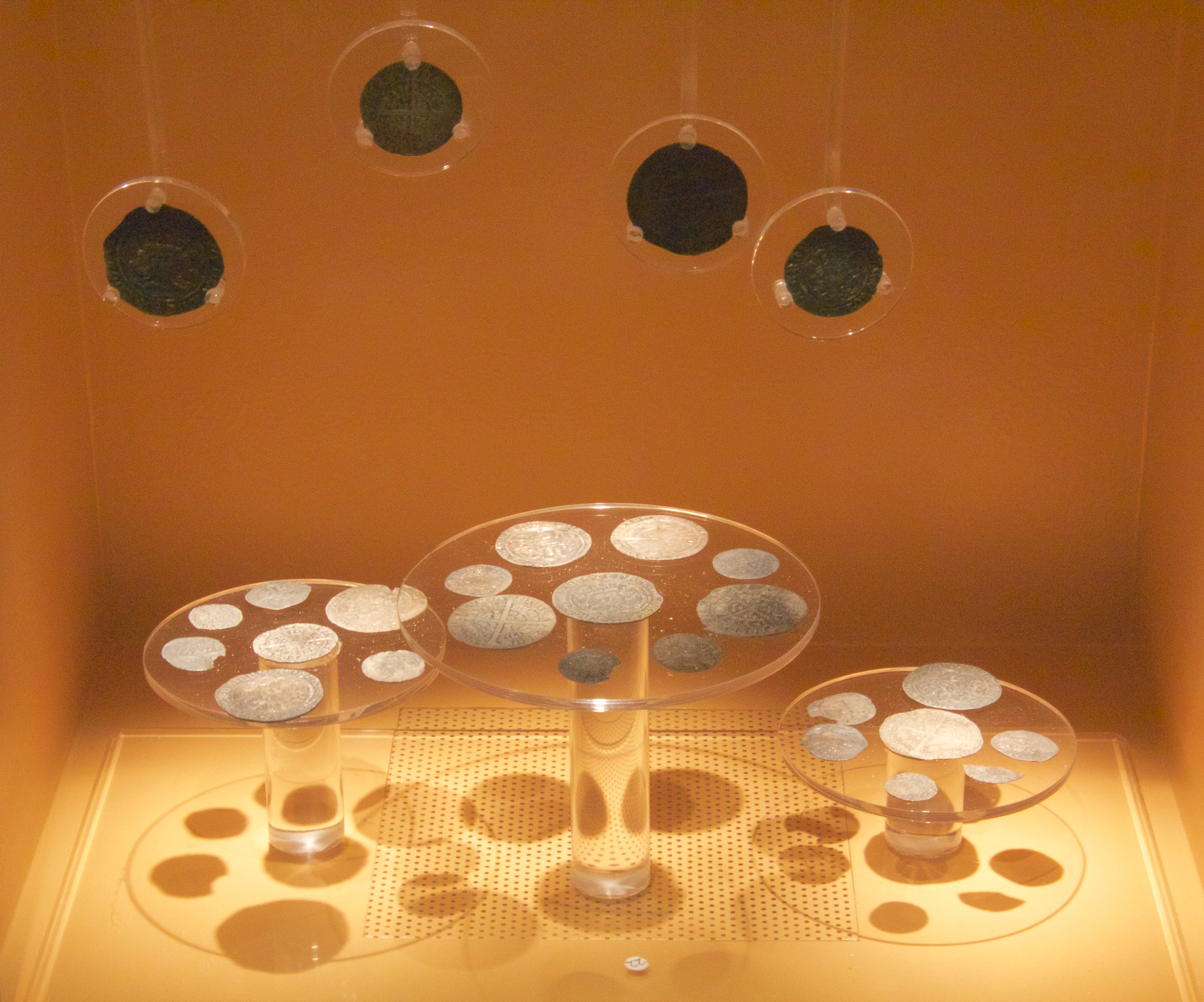 The Mitton Hoard.Picture taken at the Wikimedia editathon at Clitheroe Castle Museum.